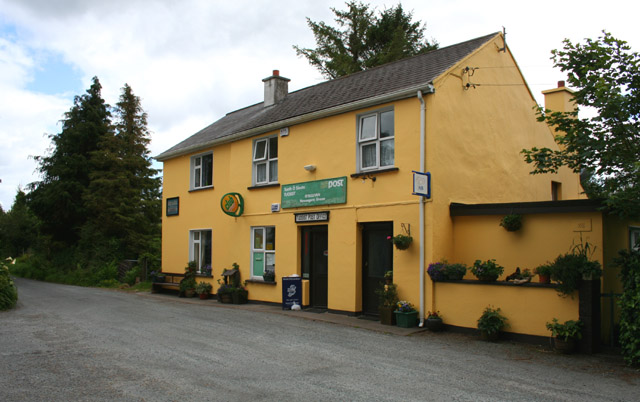 Tuosist Post Office Newsagent, grocery and post office for the village of Tuosist (Tuath O Siosta), located at a crossroads immediately north of the R573